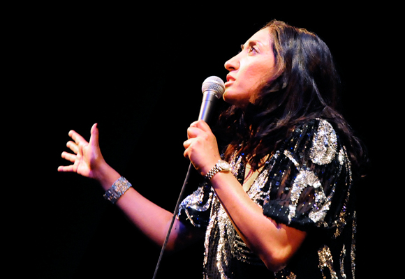 Shazia Mirza